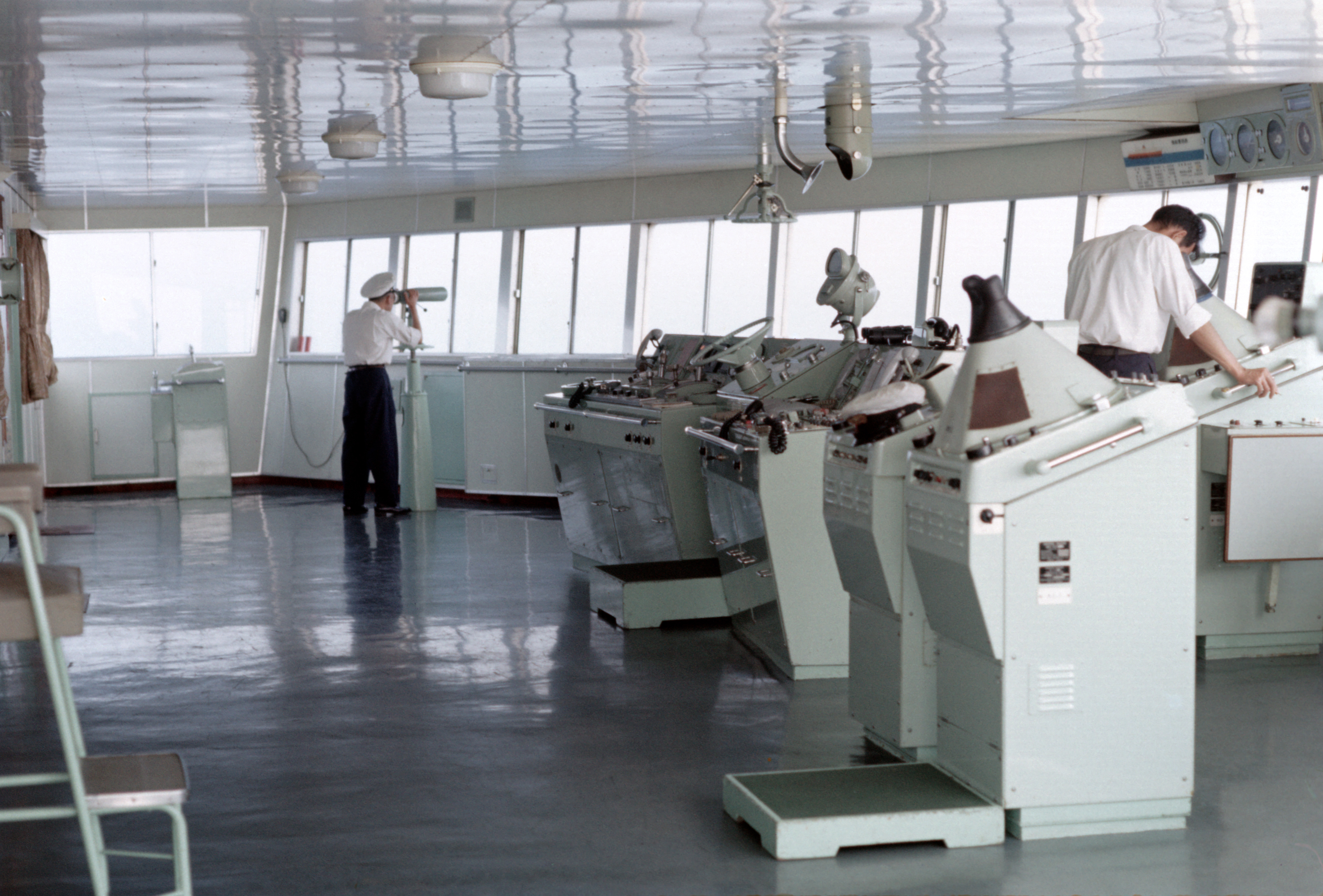 MS TOWADA MARU2 wheel house A Stand on the port end is auxiliary propeller control console